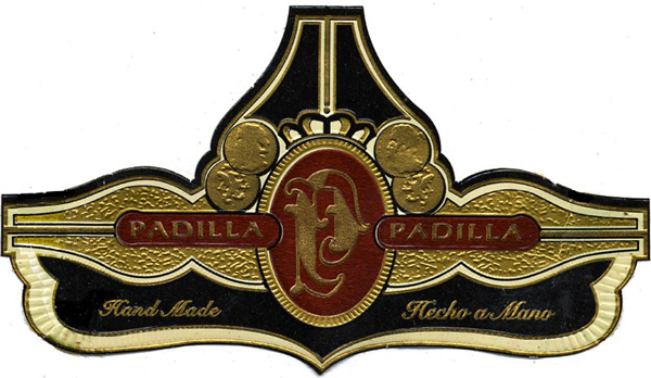 Scan of cigar band for Padilla Hybrid cigar